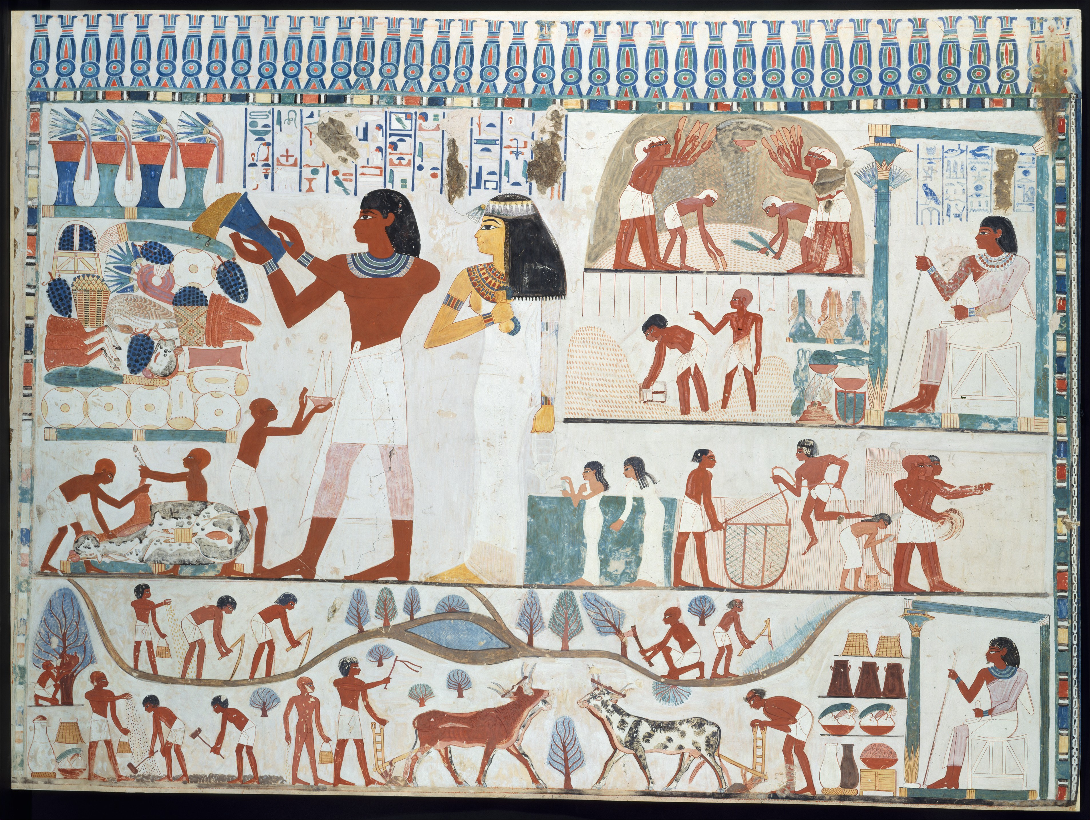 Facsimile, Nakht (TT 52), deceased and wife offering, agriculture